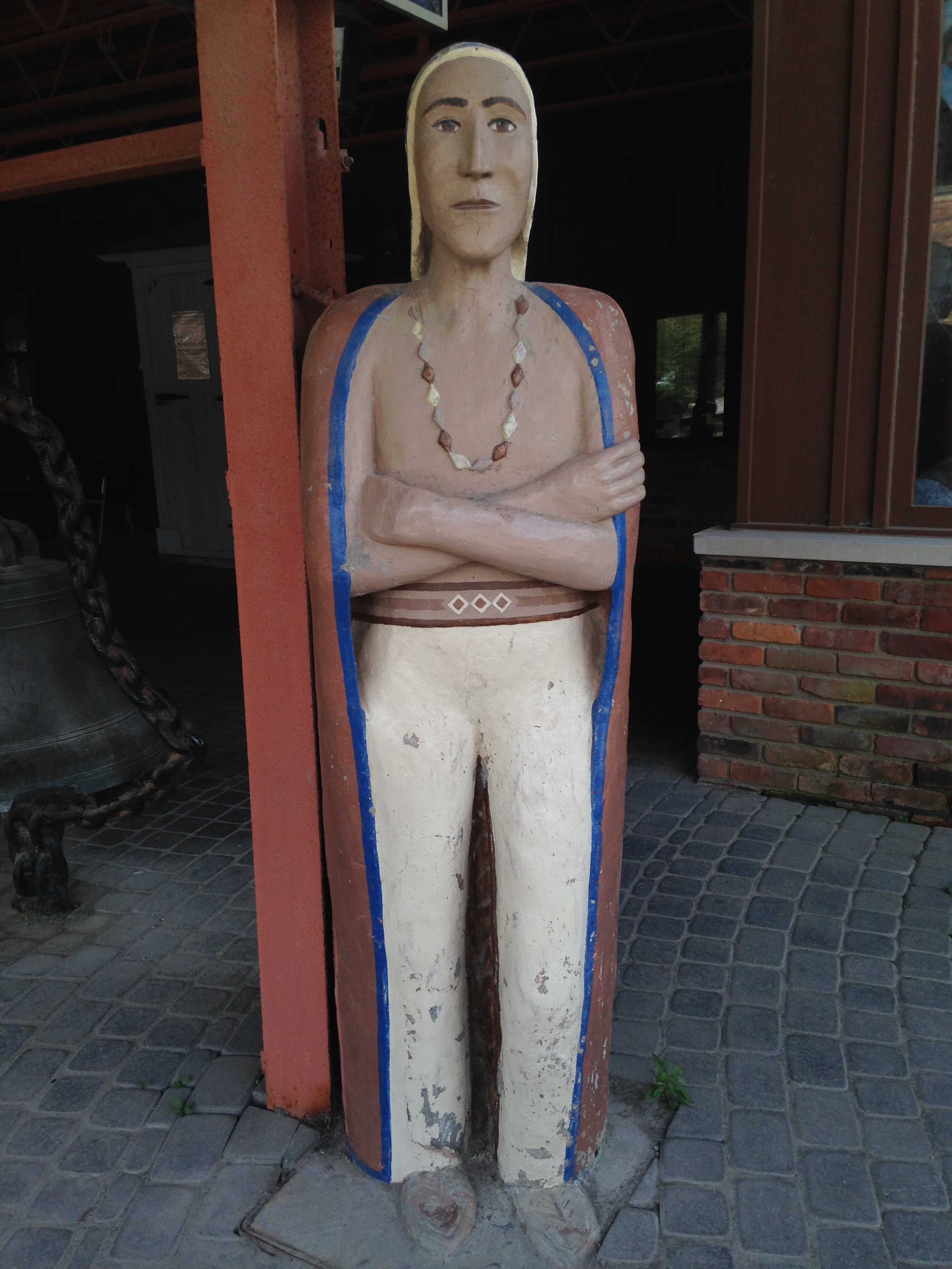 Chief Pontiac statue formerly of Hedge's Wigwam in Pleasant Ridge, MI. Now on display at Paint Creek Cider Mill in Oakland Township, MI.